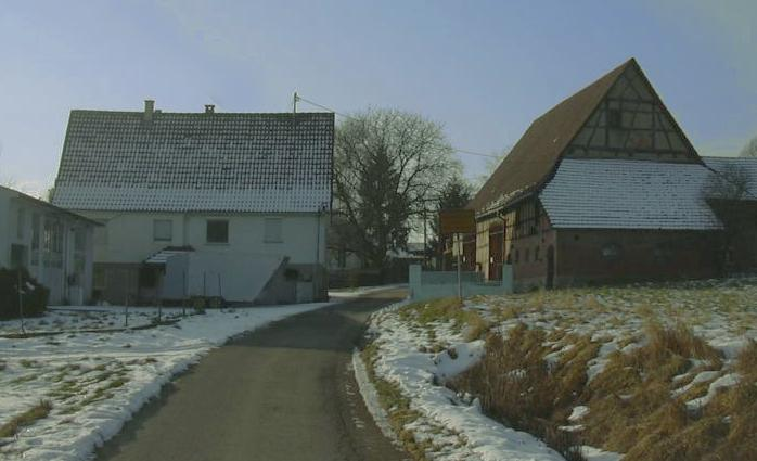 Hamlet of Hinterbirkenhof near Rielingshausen (Marbach am Neckar, Germany)